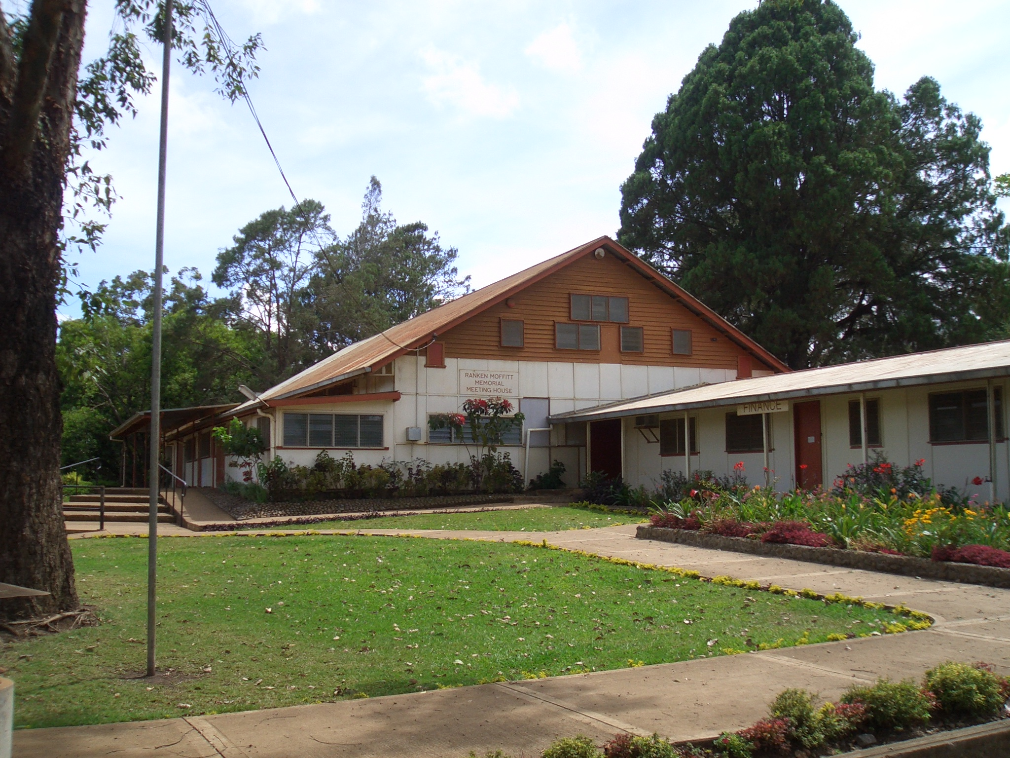 Ukarumpa meeting house. Taken by User:PeterMarkSmith Dec 2006.